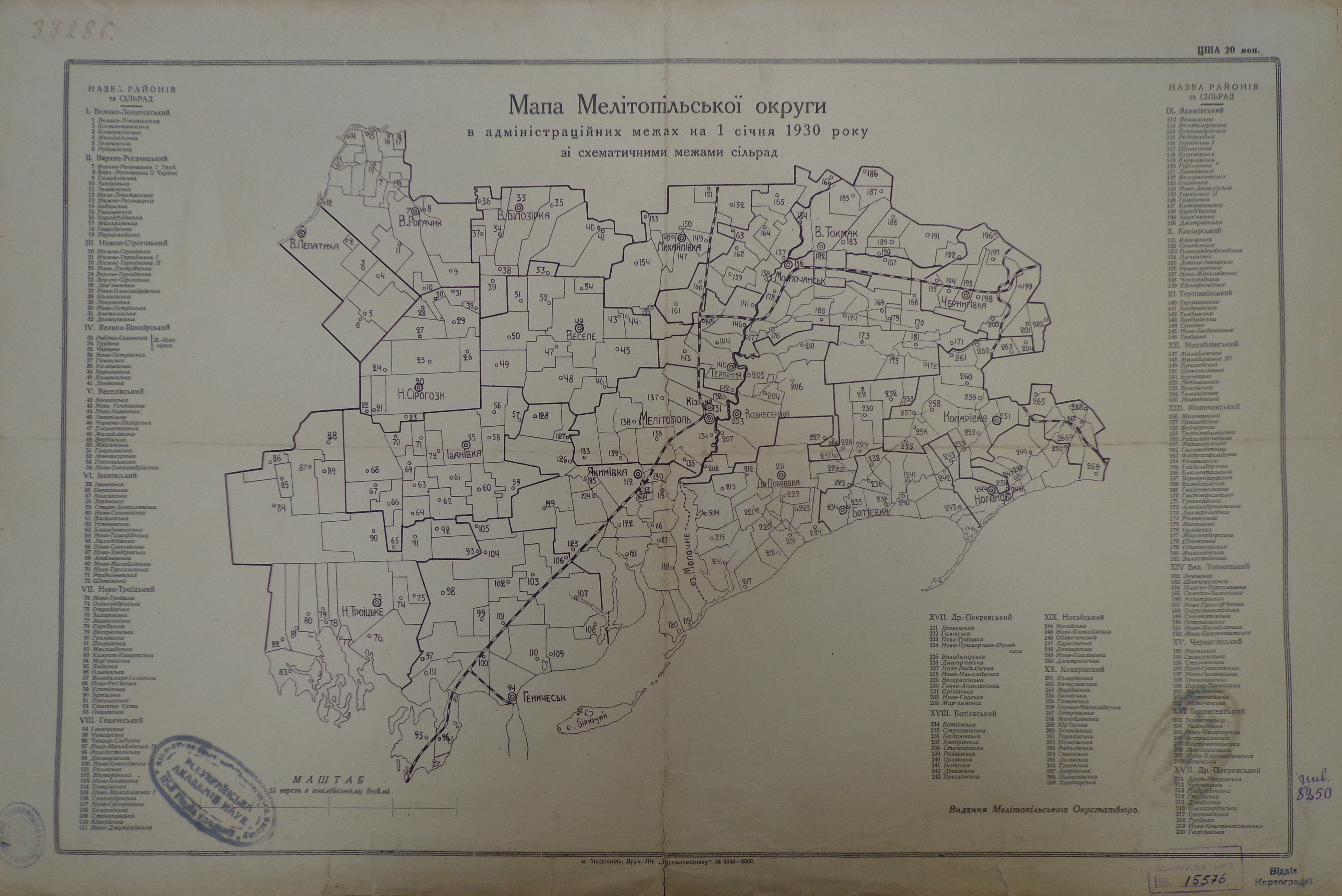 Map of Melitopol Okrug, Ukraine, year 1930